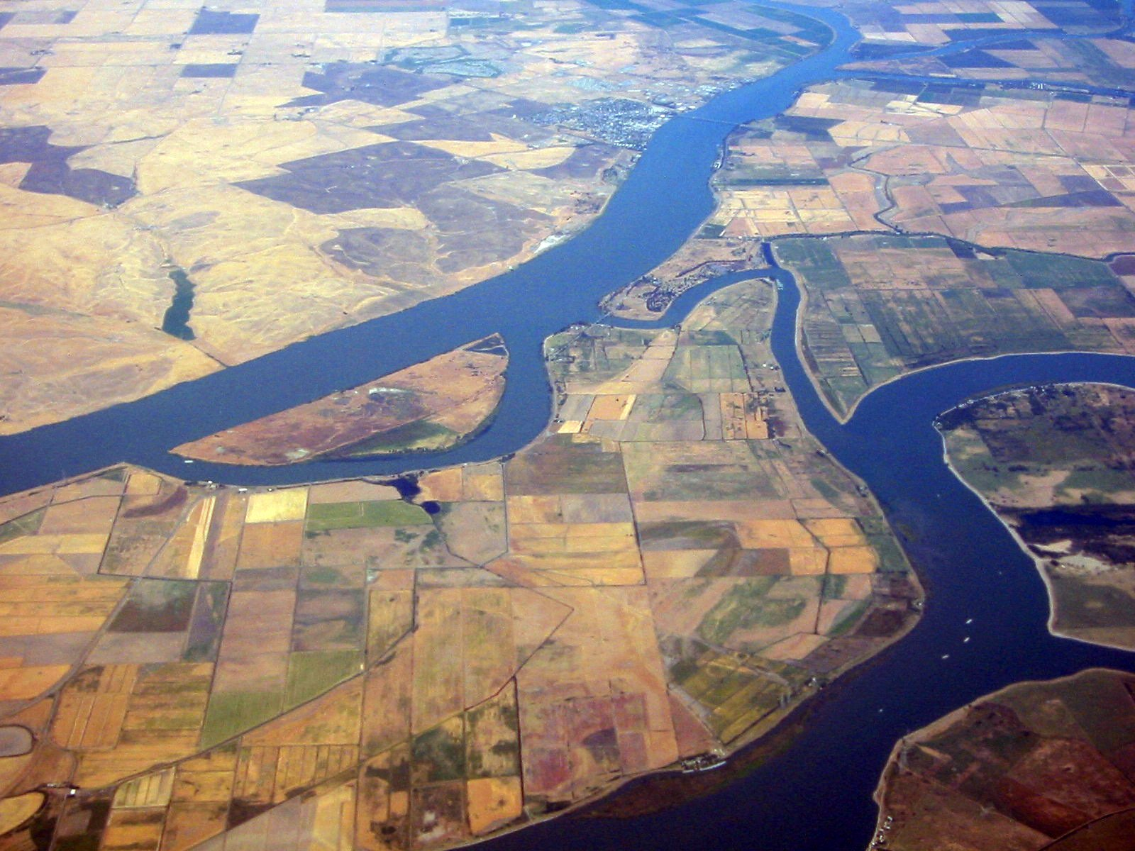 Sacramento–San Joaquin River Delta in California, USA, looking northwest. The Sacramento River is above, the San Joaquin River below. The main island between is Sherman Island. At its upper tip on the left is Brannan Island with Brannan Island State Recreation Area occupying the small peninsula; at its upper tip on the right is Twitchell Island. Bradford Island is on the center right and Jersey Island in the right lower corner. The upper left is Solano County with the city of Rio Vista on the riverbank.